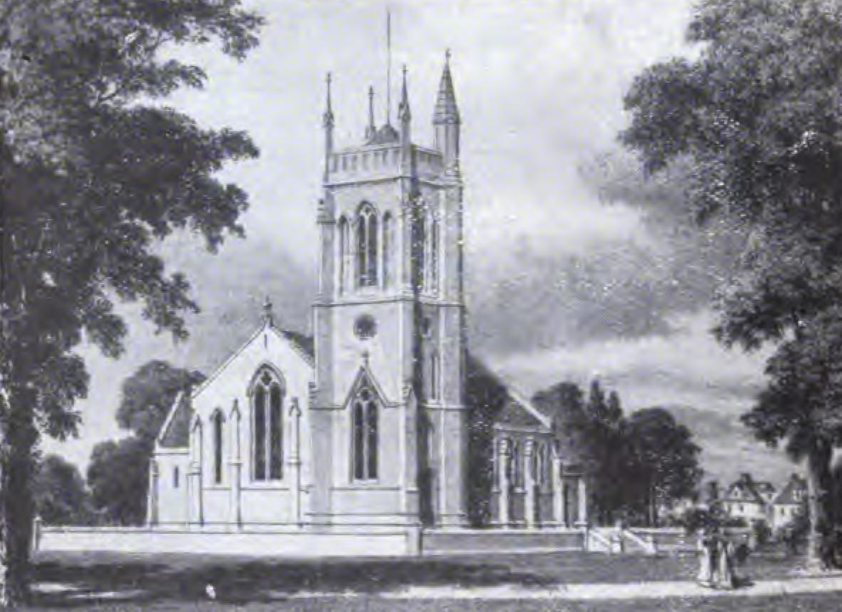 The Church of St John the Baptist, Leytonstone in Essex (now the London Borough of Waltham Forest). It was built in 1833 to the design of Edward Blore on land donated by William Cotton replacing the old Chapel of Ease. It became a separate parish in 1845. This view shows the church as first built, the path in the foreground is now Church Lane; it was published in 1904 "from an old print".